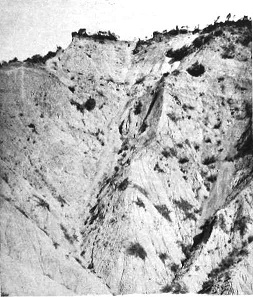 The accomplishment of a formidable task: Big Table Top captured by the Wellington Mounted Rifles Regiment during, the August operations. The dotted line shows the route taken by the Regiment.